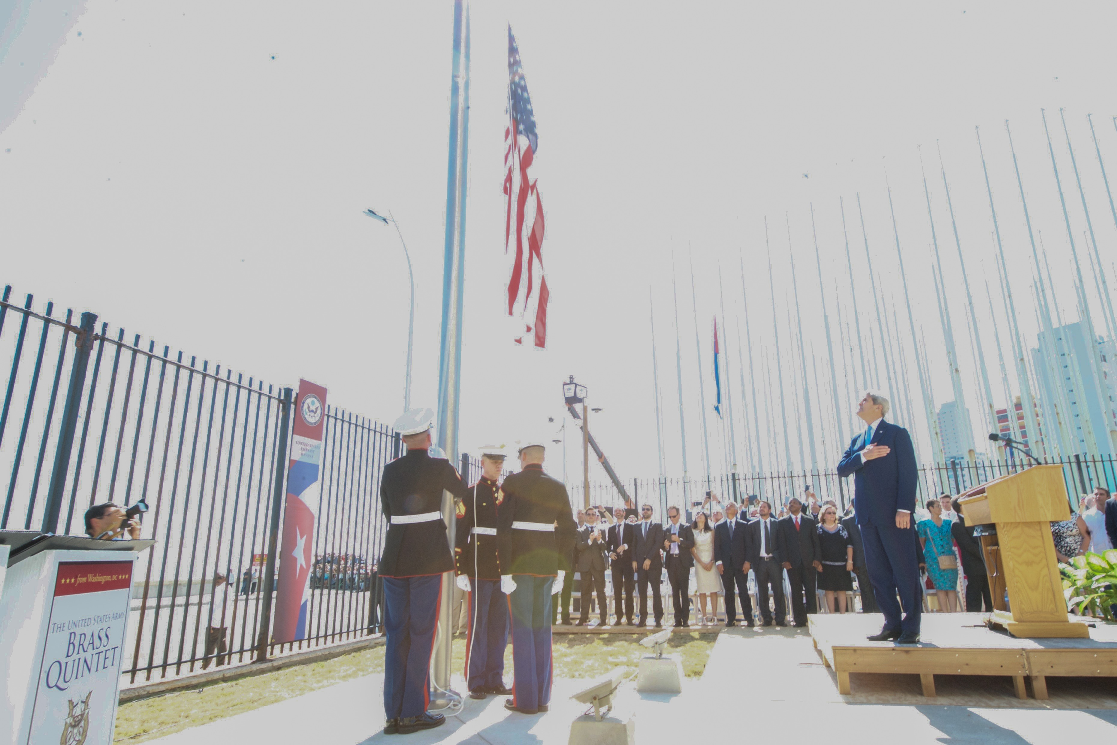 U.S. Secretary of State John Kerry watches as the Embassy Marine Guards raise the American flag for the first time in 54 years at the newly re-opened U.S. Embassy in Havana, Cuba, on August 14, 2015. [State Department photo/ Public Domain]